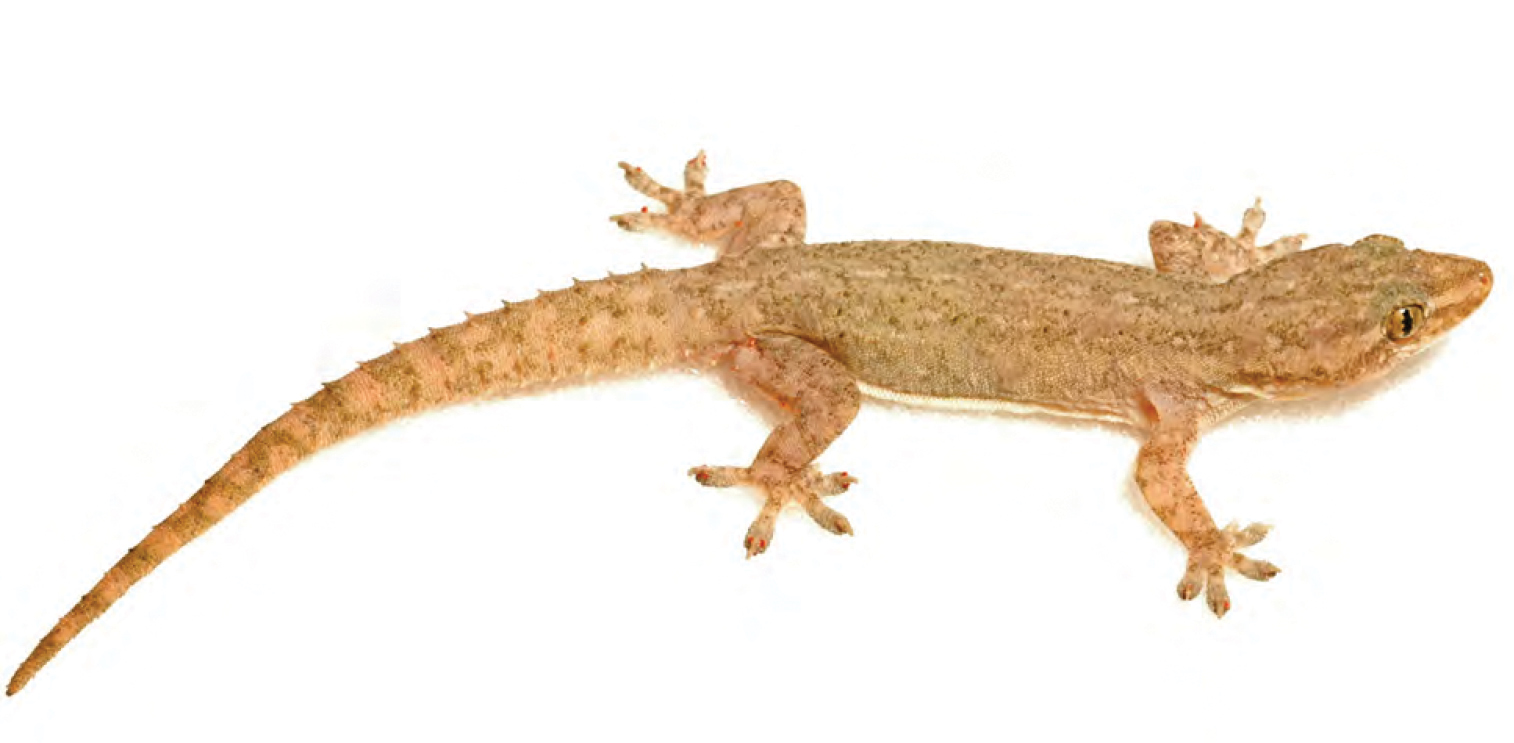 Hemidactylus frenatus (specimen in PNM) from Barangay Dibuluan. Photo: ACD.